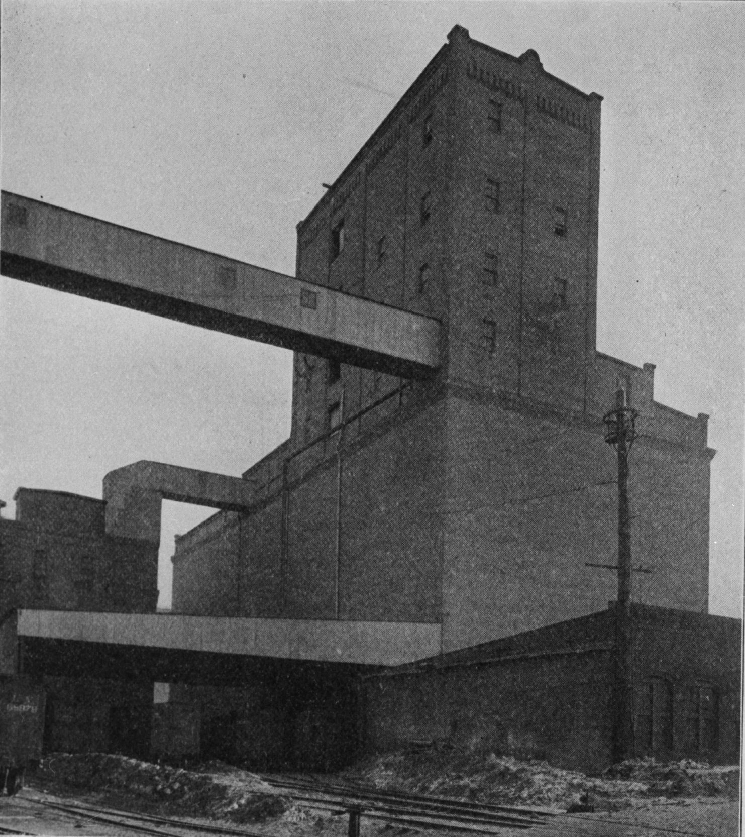 Northwestern Consolidated Milling Company Elevator A, now known as the Ceresota Building, 119 Fifth Avenue South, Minneapolis, Hennepin County, MN. Image has been cropped from photo of page 52 in Grain Dealers Journal 1918. Historic American Engineering Record images of Minnesota.